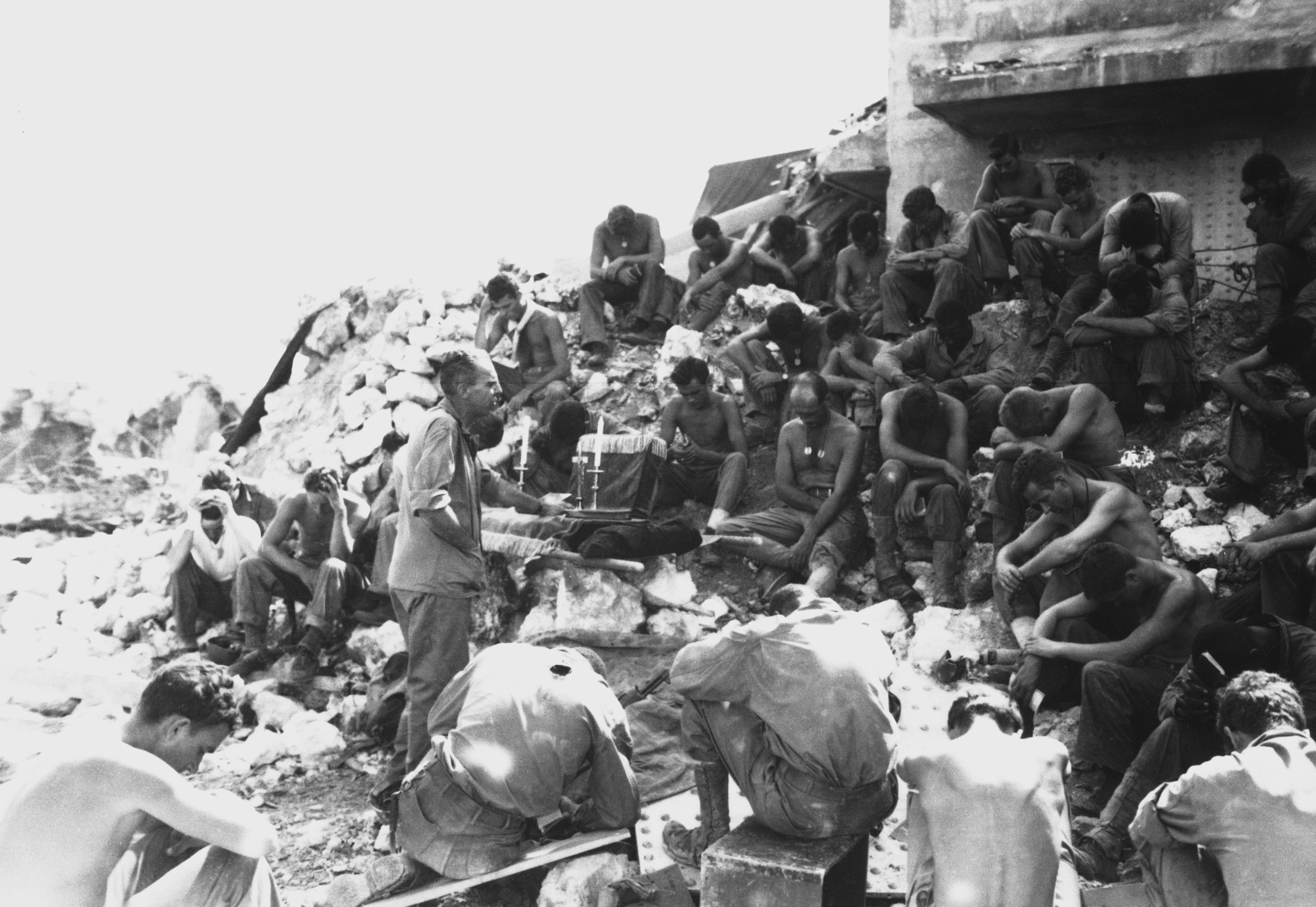 Protestant Chaplain Rufus W. Oakley holding services within a few hundred yards of Japanese positions, well within range of their mortars if they had chosen to throw them at Peleliu.